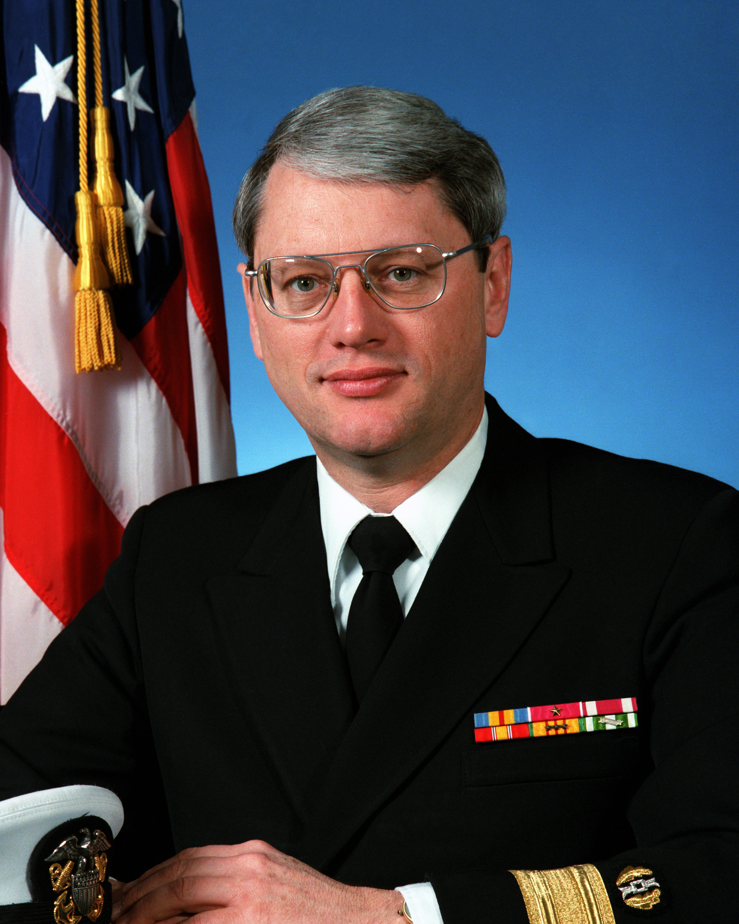 United States Navy Rear Admiral John E. "Ted" Gordon.